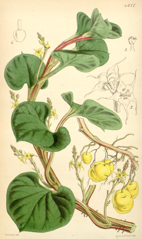 Illustration of Ullucus tuberosus